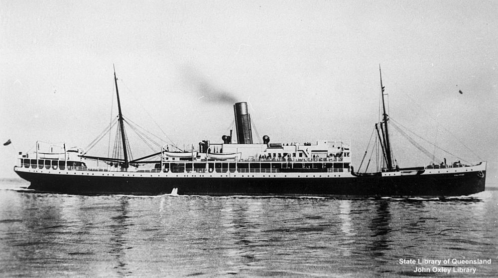 3,908 GRT passenger ship Calypso, built at Middlesbrough in 1897–98 by Sir Raylton Dixon & Co as Bruxellesville for Cie. Maritime Belge du Congo. Woermann-Linie bought her in 1901 and renamed her Alexandra Woermann. In 1919 the UK Shipping Controller seized her as First World War reparations and appointed Oceanic SN Co to manage her. In 1920 Ellerman's Wilson Line bought her and renamed her Calypso. Ellerman's ran her between Hull and the Baltic, and in the summers of 1932–36 she made summer cruises to Denmark and Norway. In 1936 she was scrapped in Bruges, Belgium.